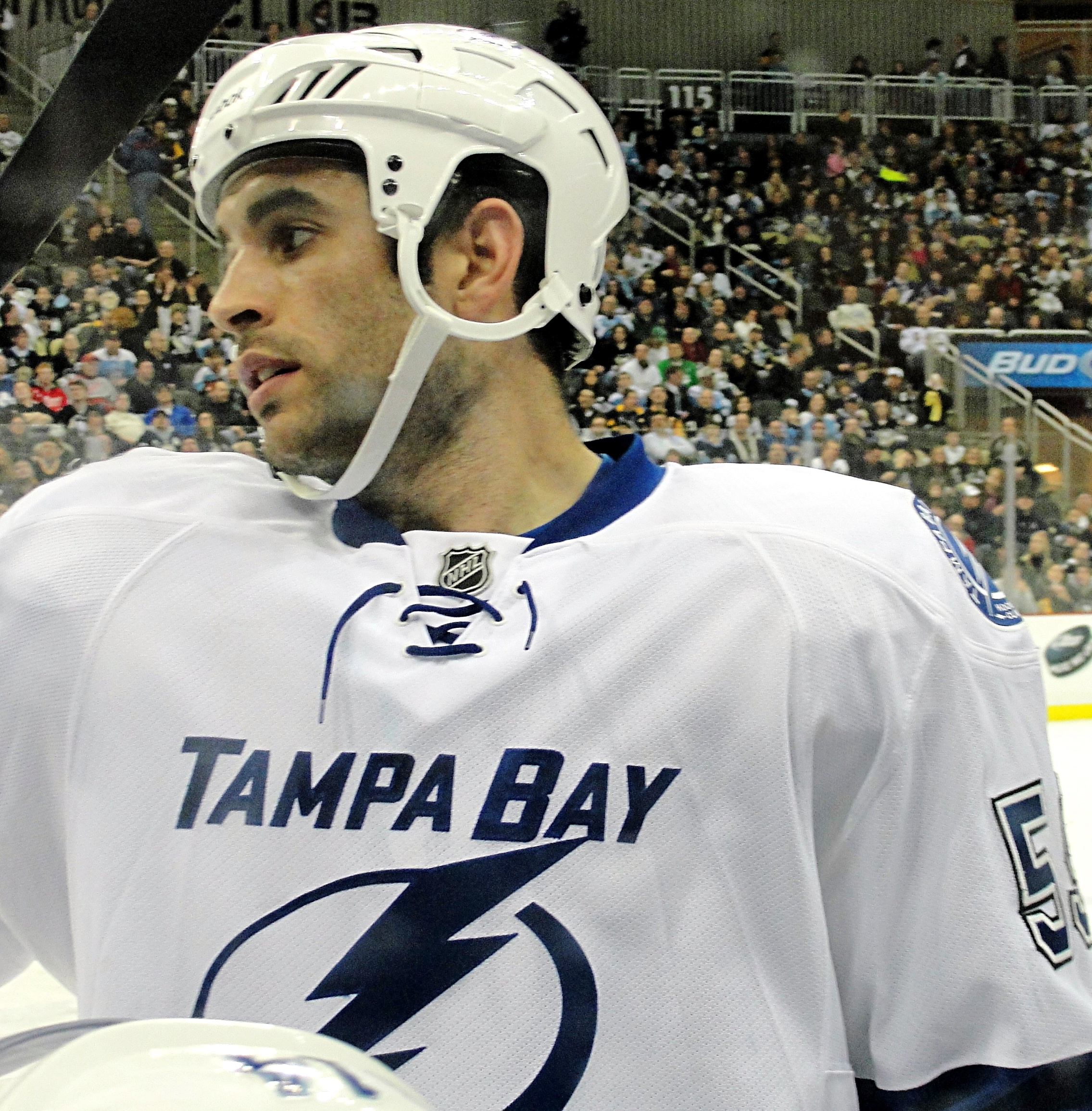 Tampa Bay Lightning forward Mike Angelidis during a February 25, 2012 game against the Pittsburgh Penguins at Consol Energy Center in Pittsburgh, PA.